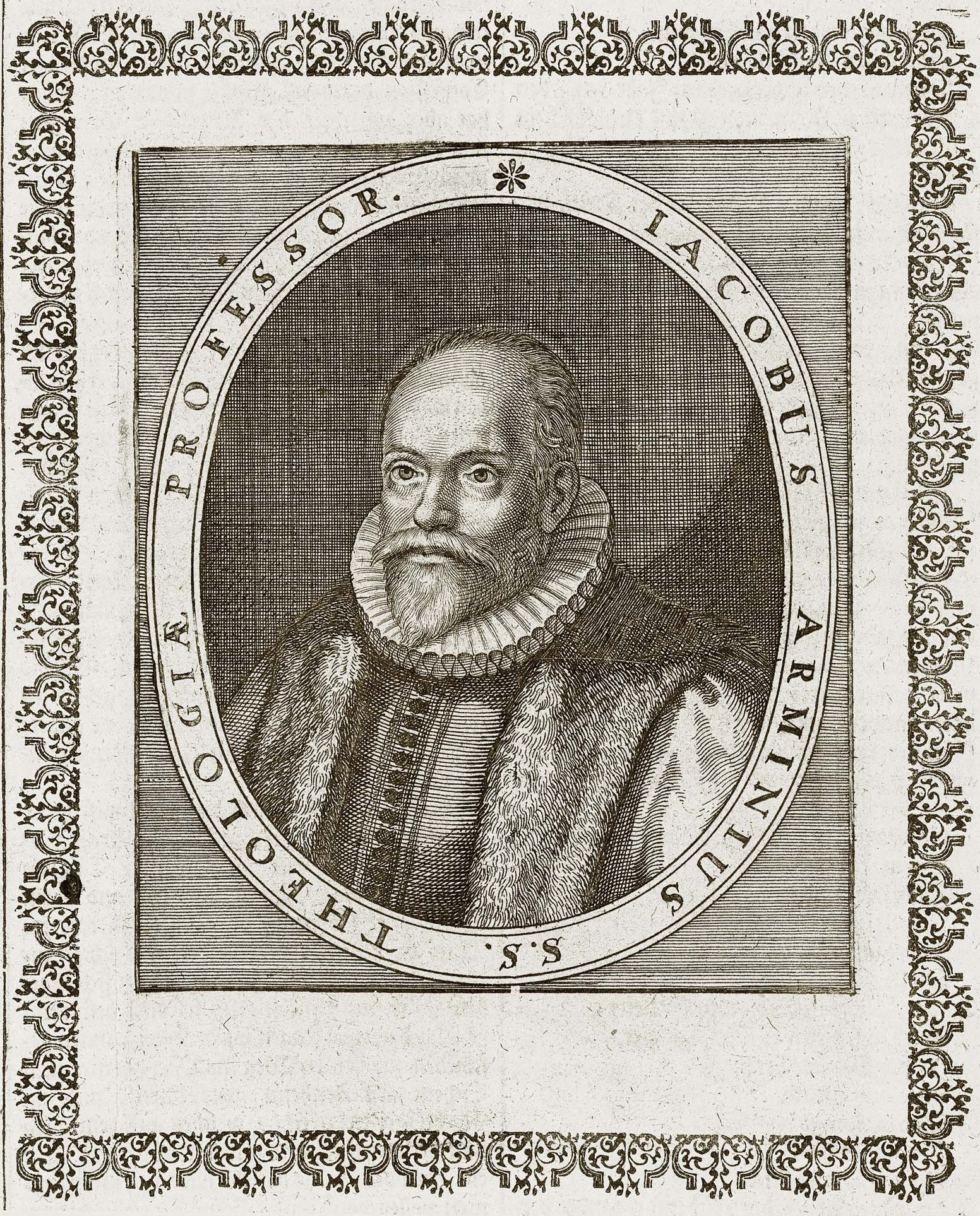 Jacobus Arminius, Kupferstich aus Theatrum Europaeum